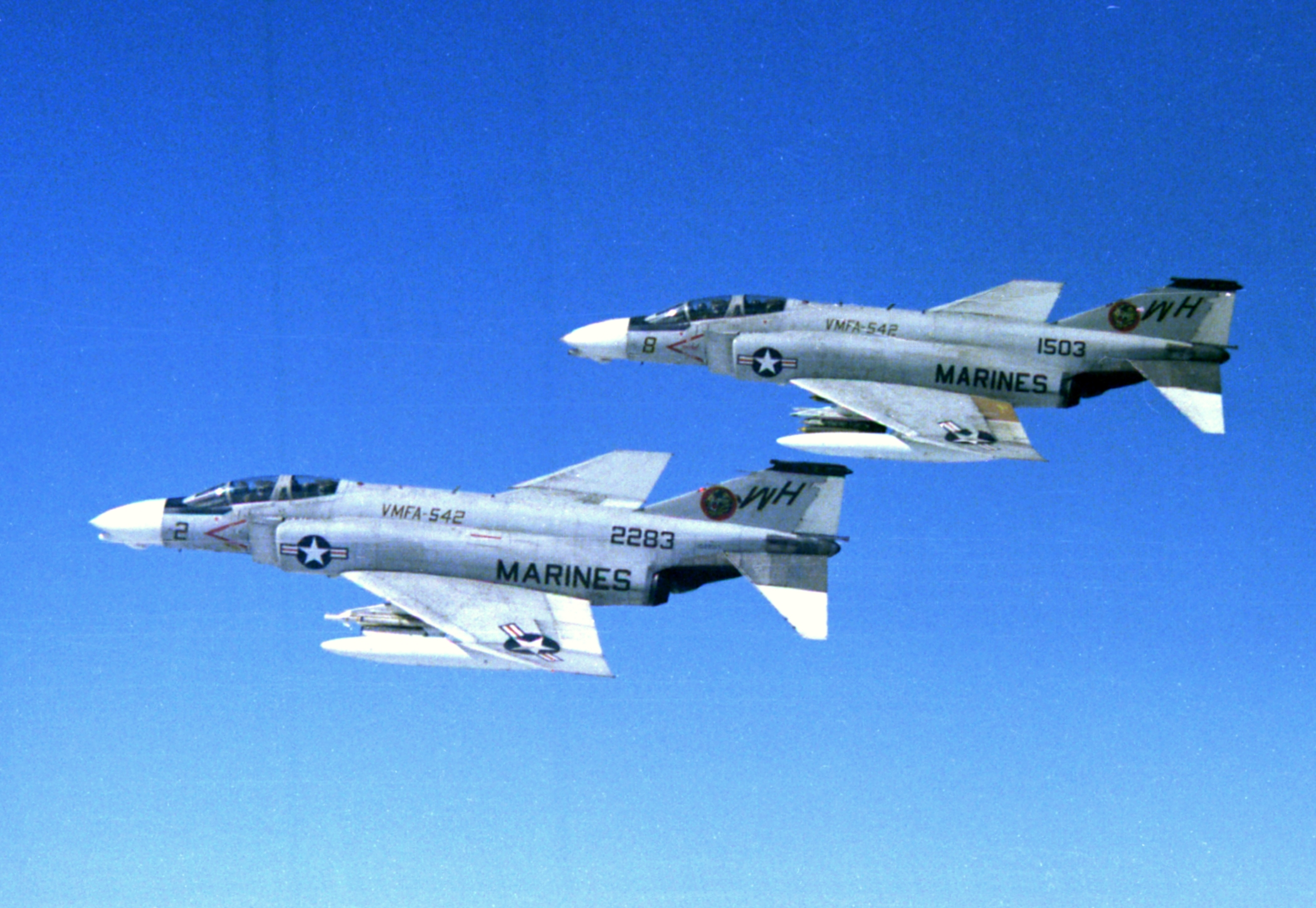 Official description: "Two F-4B Phantoms of VMFA-542, Marine Aircraft Group 11, 1st Marine Aircraft Wing, DaNang RVN, on their way to targets in support of Marines working in Northern I Corps, 01/1969."